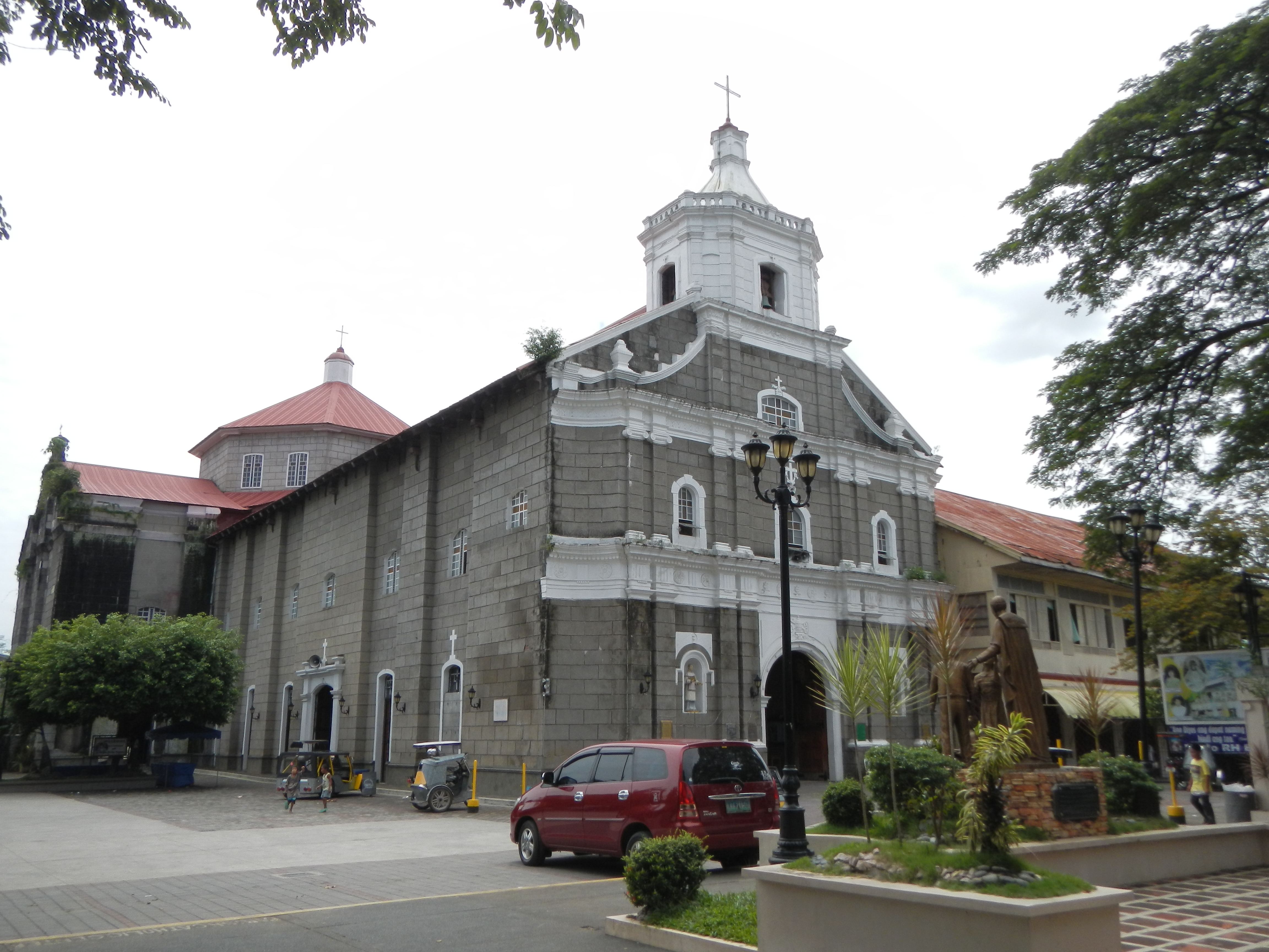 Divine Shepherdess Shrine in Gapan, Nueva Ecija Three Kings Parish Church Compound, Delos Reyes St, Gapan City 3105 Parokya ng Tatlong Hari, Pambansang Dambana ng Birhen Divina Pastora, Gapan Ciy (Rev. Fr. Antonio A. Mangahas, Jr. Parish Priest), Gapan City[1]